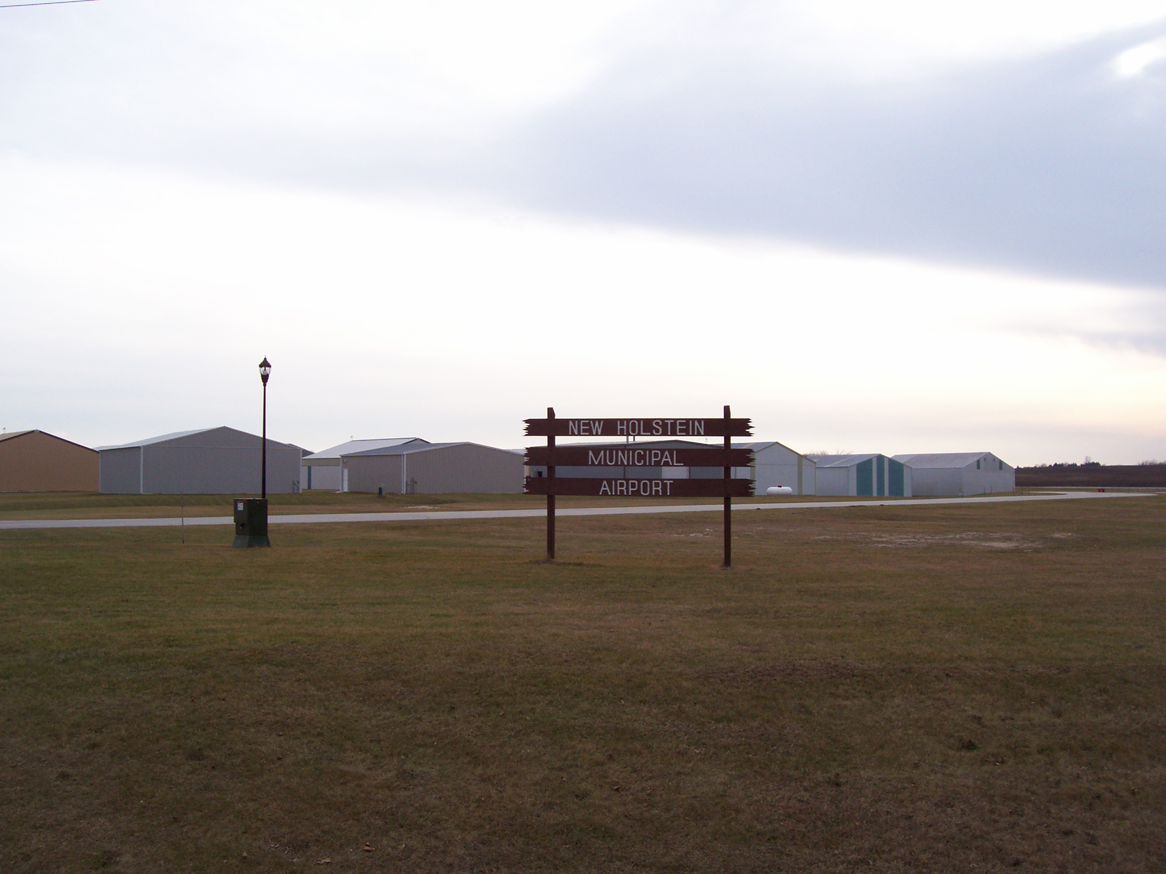 The sign for New Holstein Municipal Airport in New Holstein, Wisconsin, USA.